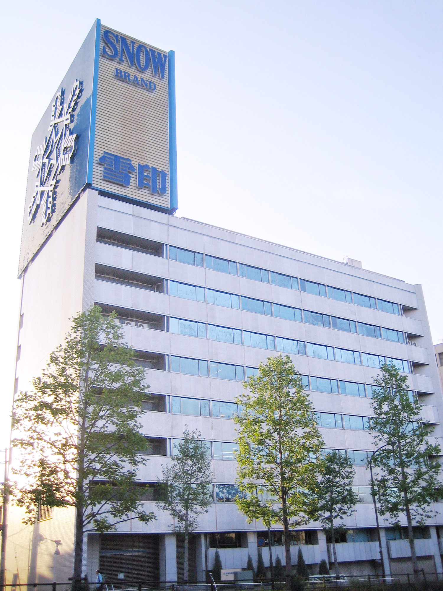 Snow Brand Milk Products Co., Ltd. (雪印乳業 Yukijirushi Nyūgyō), a in Shinjuku, Tokyo, Japan